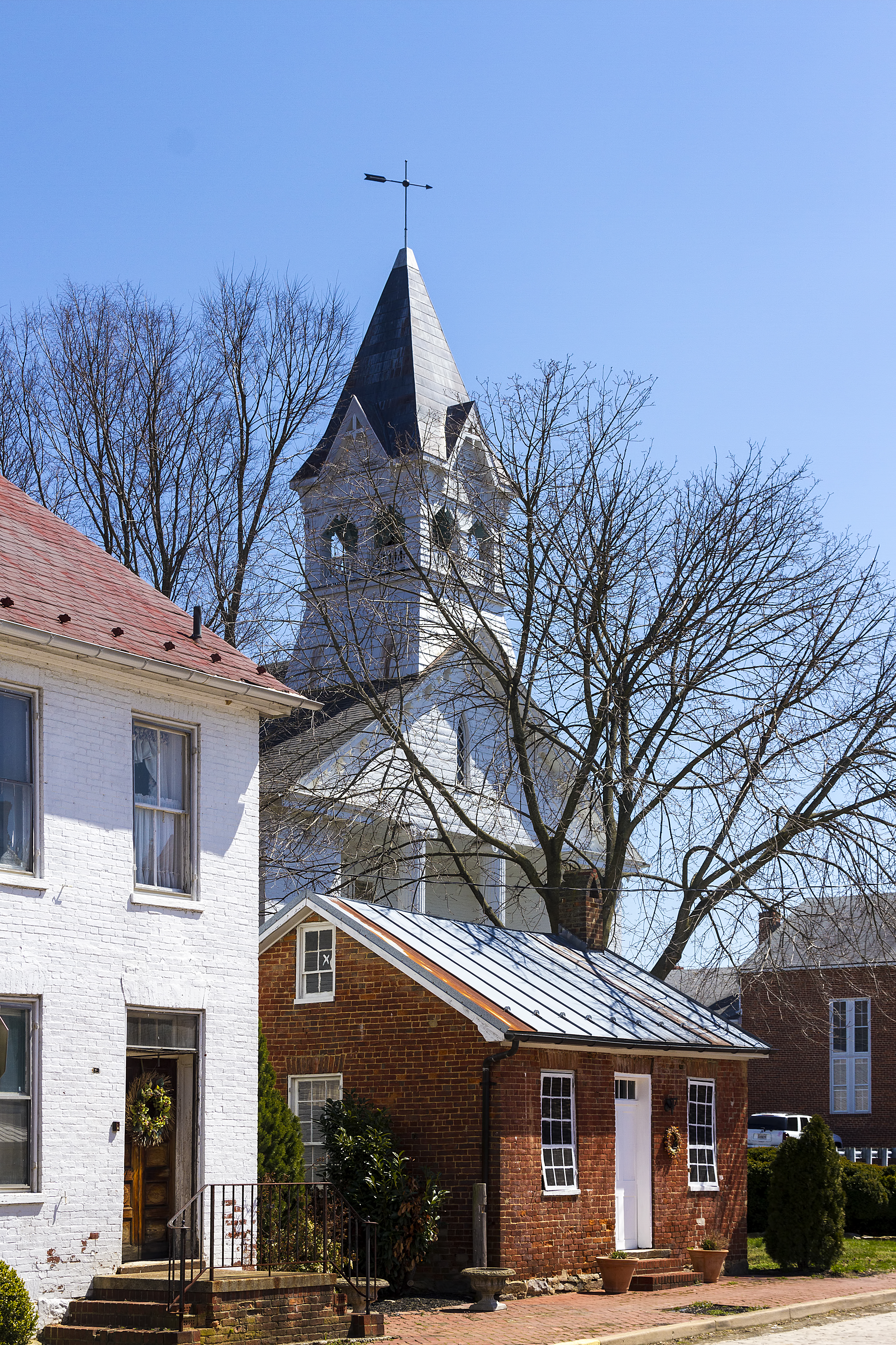 Main Street and the former Resurrection Reformed Church, Burkittsville, Maryland, USA